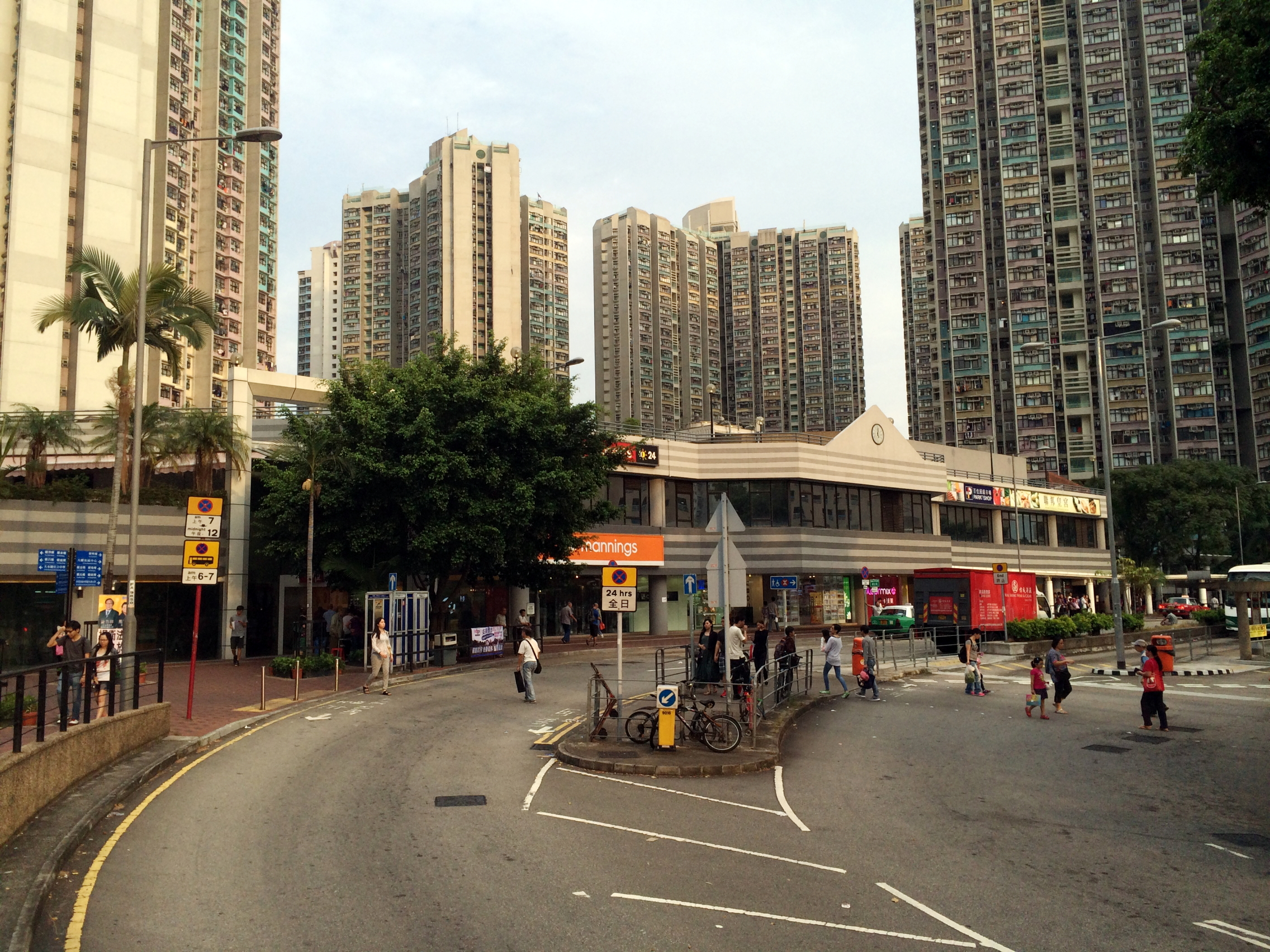 Tin Yiu Shopping Centre